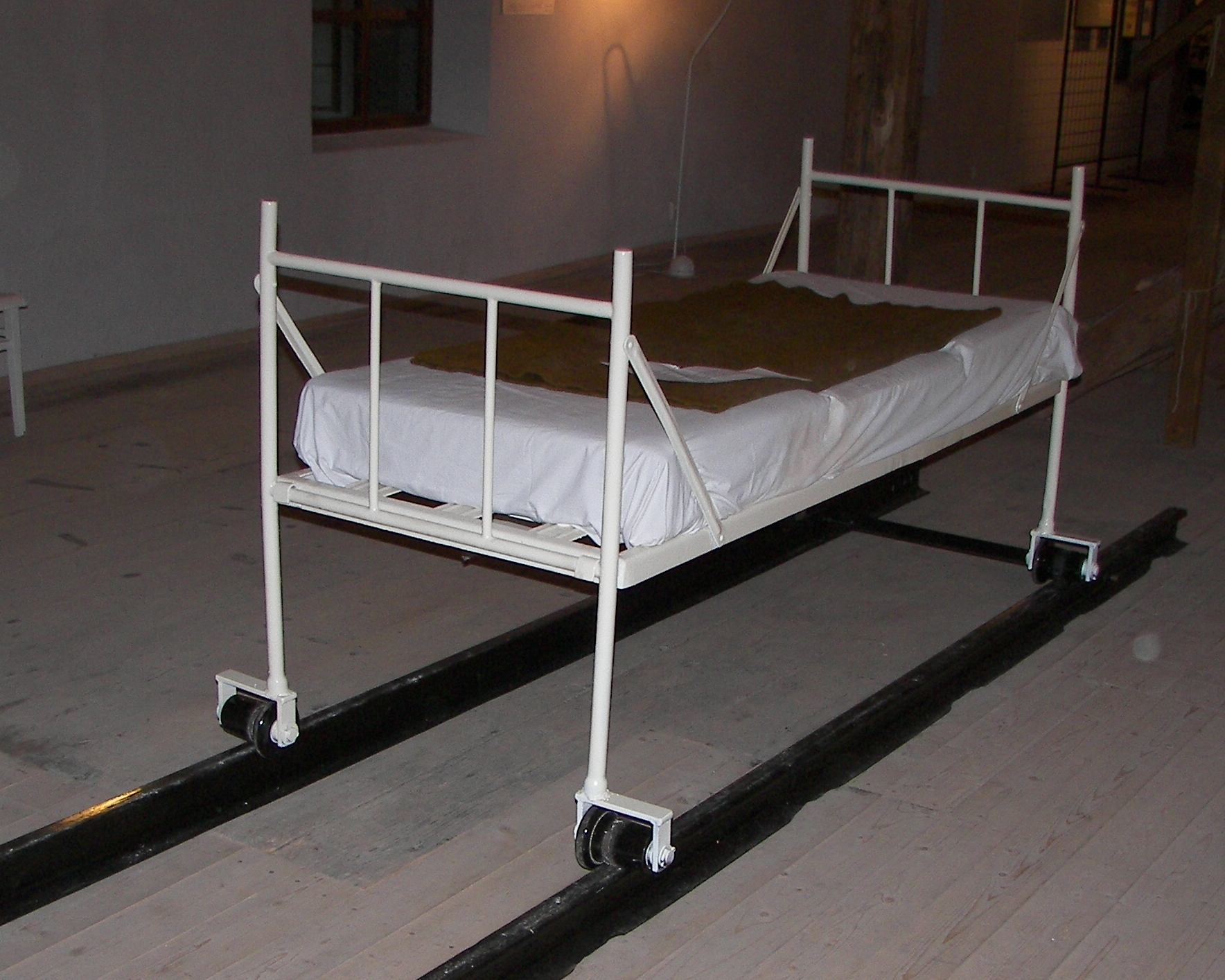 Jára Cimrman's invention, a single-seat railway sleeping car (at the exhibition devoted to Jára Cimrman in the hydroelectric power station in Jindřichův Hradec.